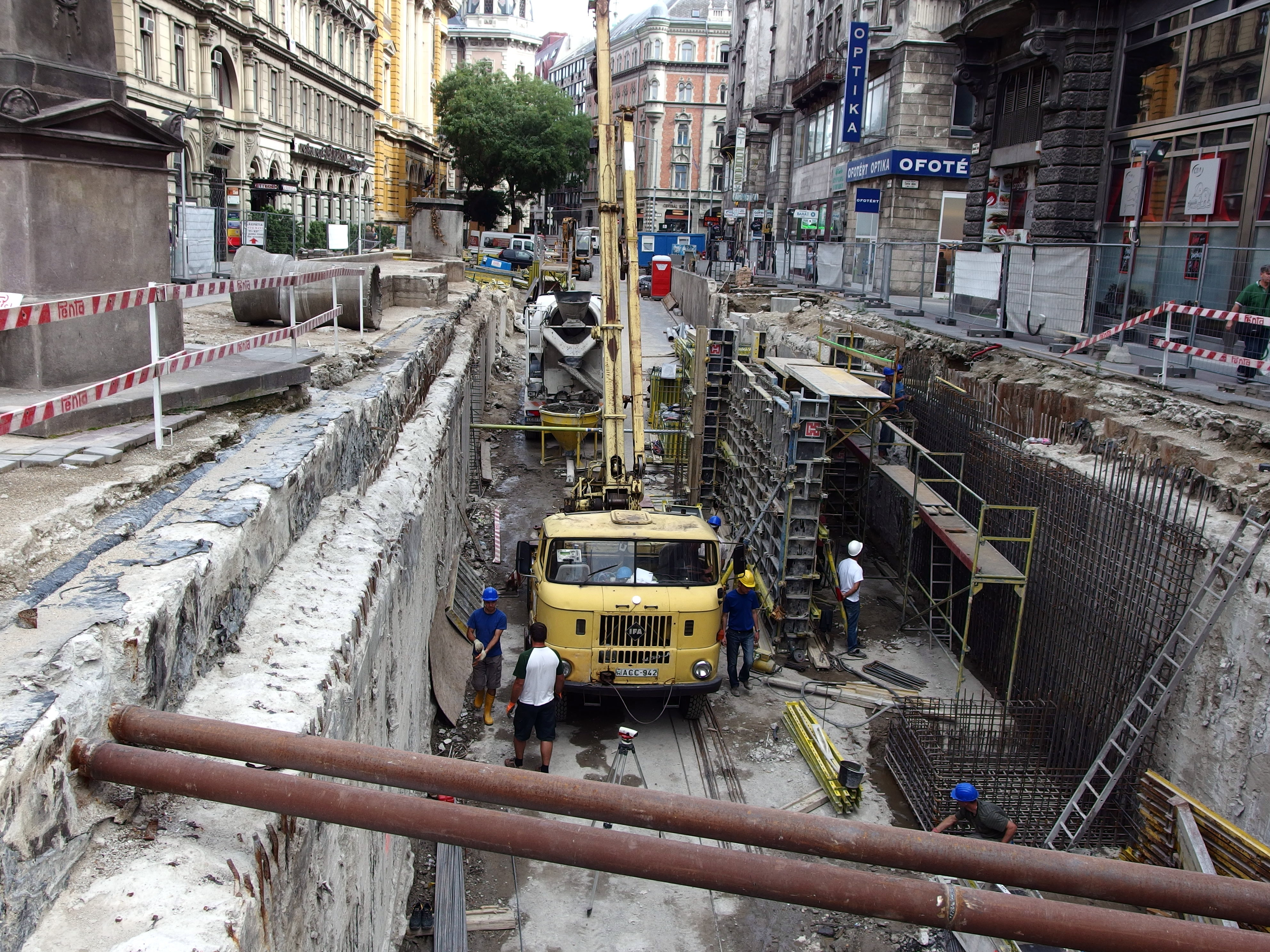 IFA W50 based ADK 80 crane truck in Budapest.